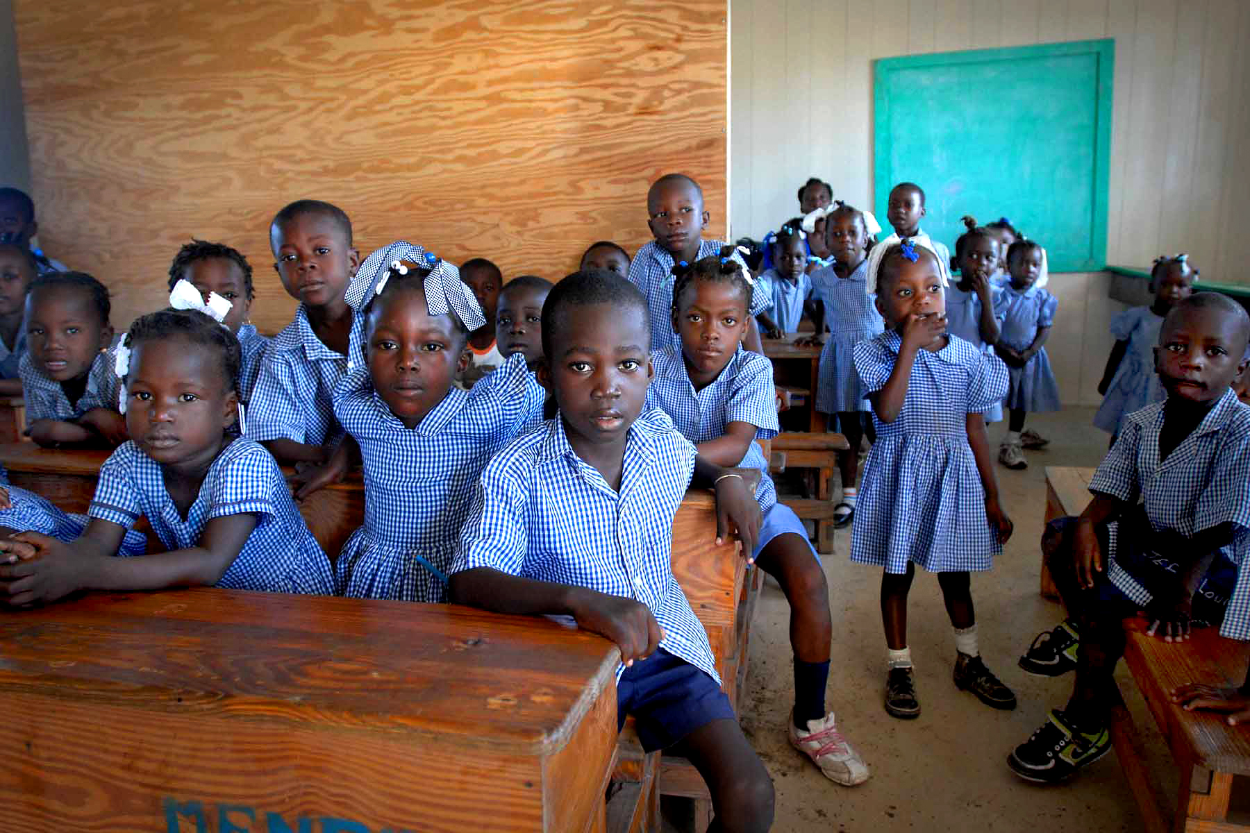 A class of students sits with their new school supply kits, delivered by troops assigned to Task Force Bon Voizen in the Artibonite department of Haiti, June 16, 2011. People to People International and Operation International Children, both nongovernmental organizations, partnered to donate the supplies that were delivered. Task Force Bon Voizen is a U.S. Southern Command sponsored joint foreign humanitarian exercise under the command of the Louisiana National Guard.